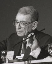 Boutros Boutros-Ghali, then Secretary-General of the United Nations, at the 1995 World Economic Forum in Davos.